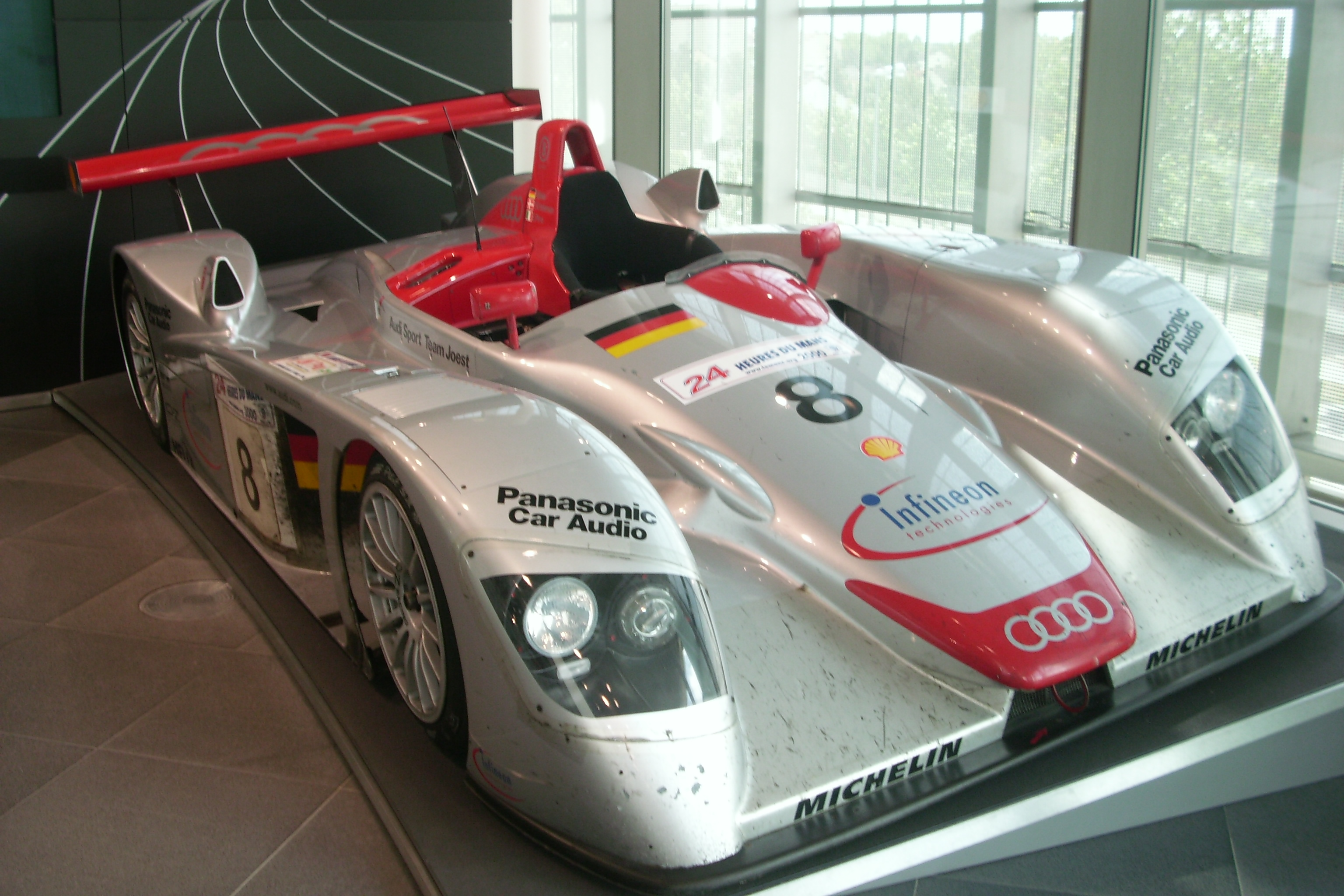 This Audi R8 is the winner of 24 Hours of Le Mans 2000. Photographed in the Audi Museum in Ingolstadt (Germany).